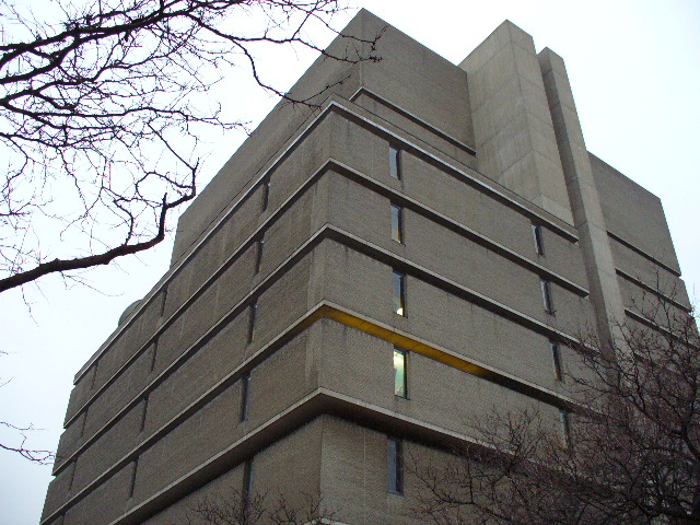 Ryerson Library